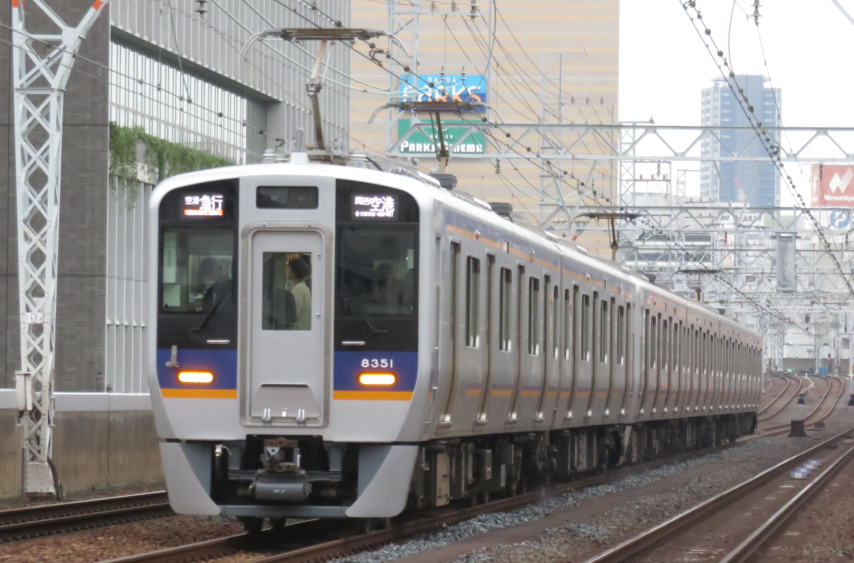 Nankai 8300 series 2-car EMU set 8701